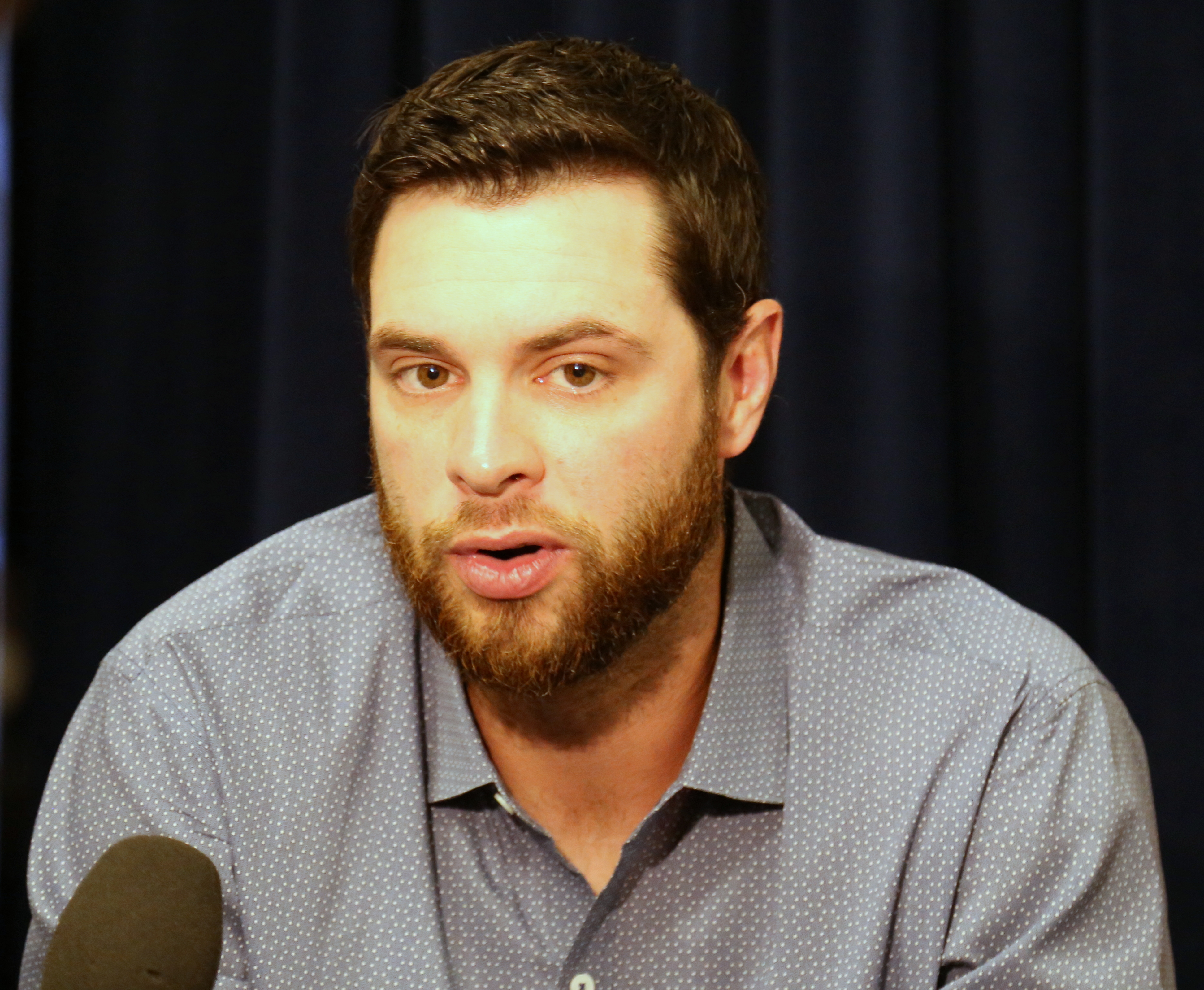 Giants first baseman Brandon talks to reporters at 2016 All-Star Game availability.